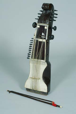 Sarangi from Rajasthan, India. The object in this image is within the permanent collection of The Children’s Museum of Indianapolis